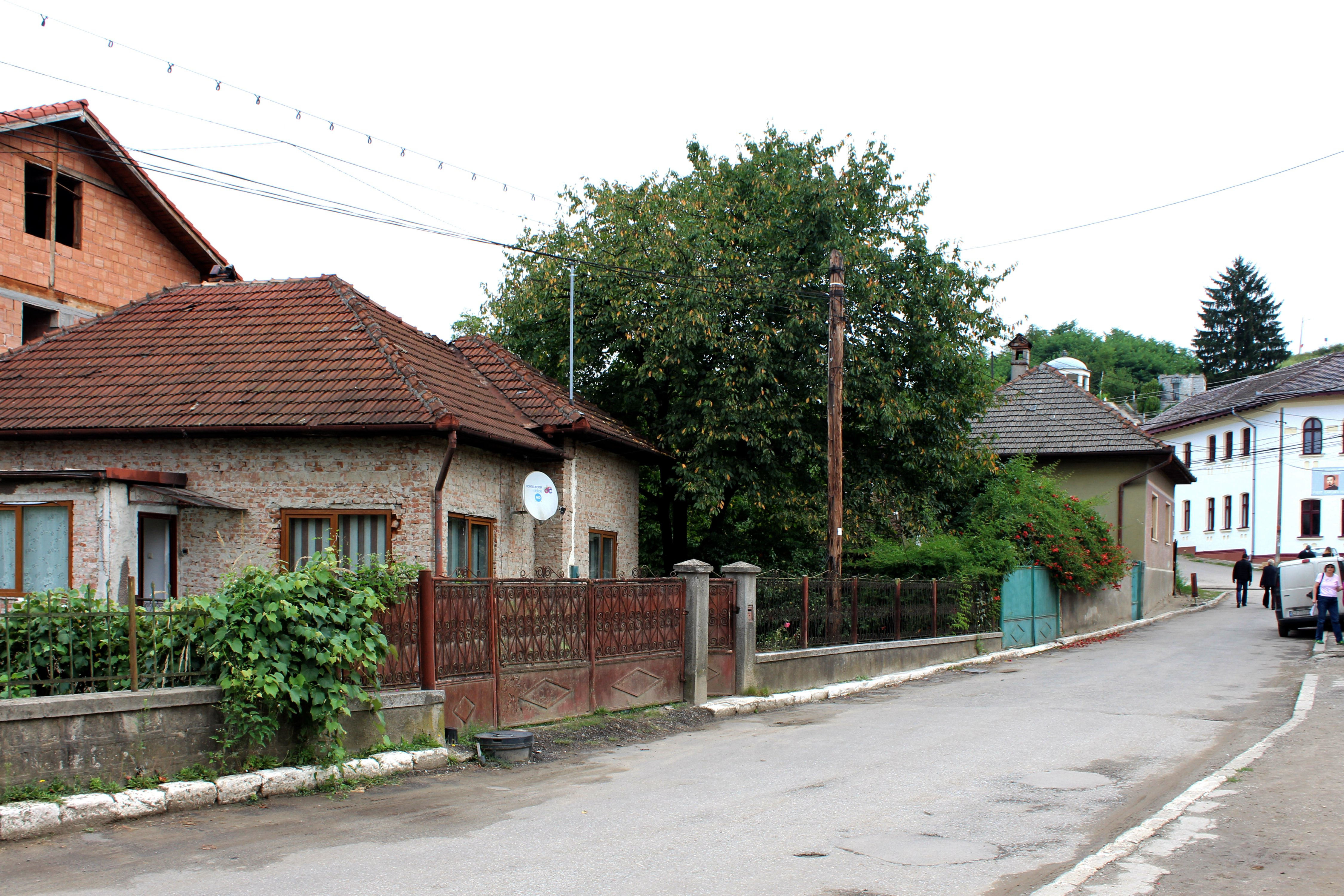 Cloșca Street no. 13-15 in Brad, Romania